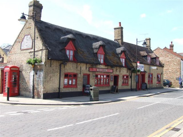 The Red Lion Soham